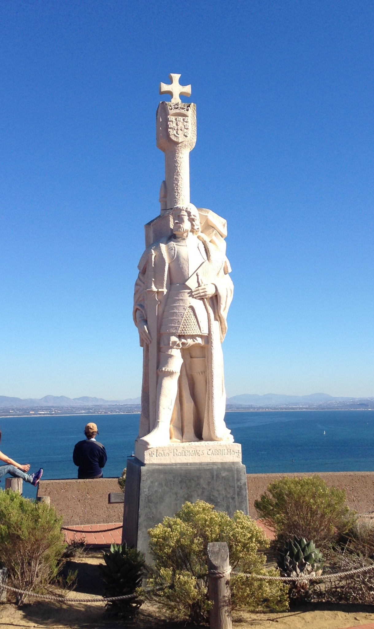 Statue of Juan Rodriguez Cabrillo, the first European who reached the US west coast, at Point Loma in San Diego